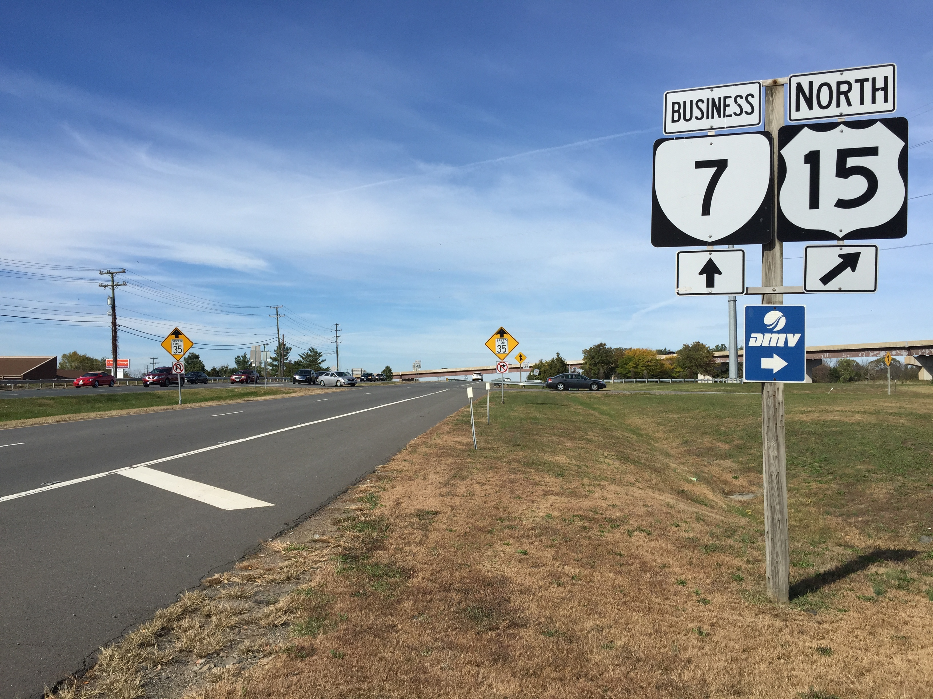 View west along Virginia State Route 7 Business (Market Street) at U.S. Route 15 (Leesburg Bypass) in Leesburg, Loudoun County, Virginia